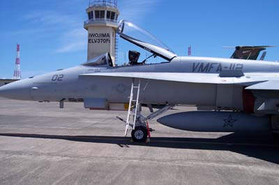 Lt. Col. S.M. Roepke's F/A 18A rests on Iwo Jima's flight line during VMFA-112's recent historic visit.